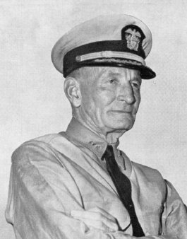 Admiral John S. McCain, Sr. Grandfather of US Senator John McCain